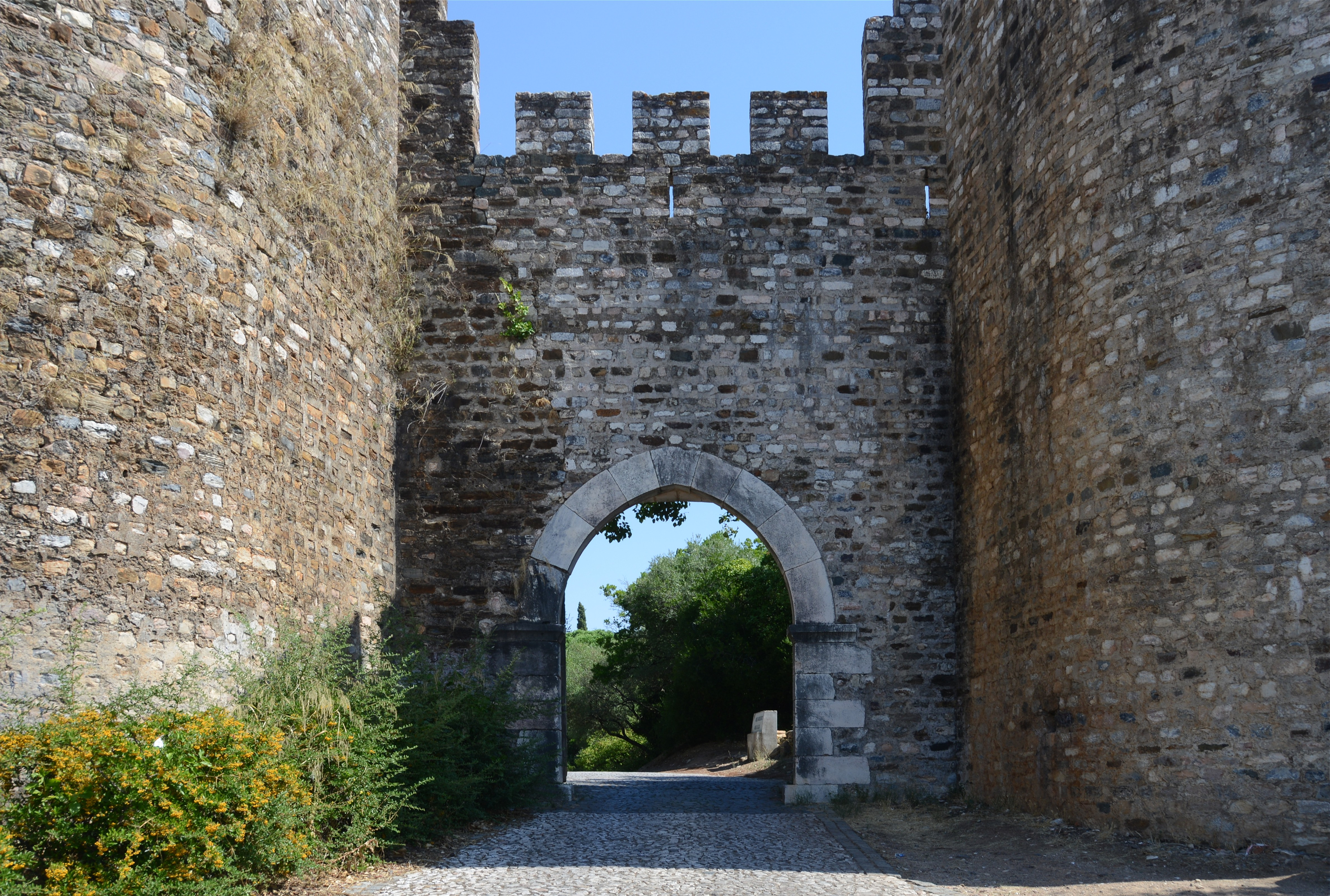 detail of the castle of Vila Viçosa, Portugal